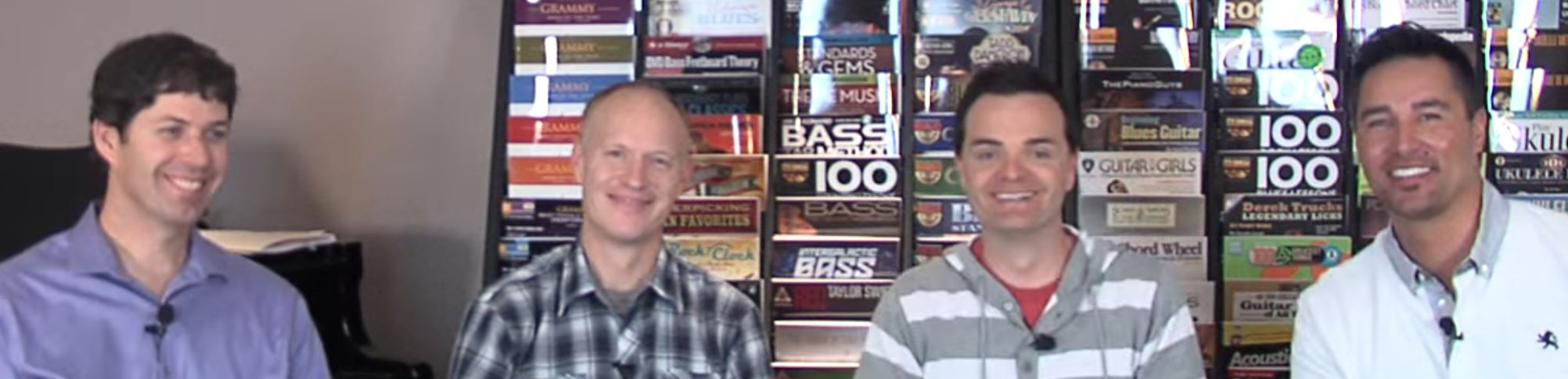 Cropped video still of The Piano Guys being interviewed by Music Express Magazine in 2014